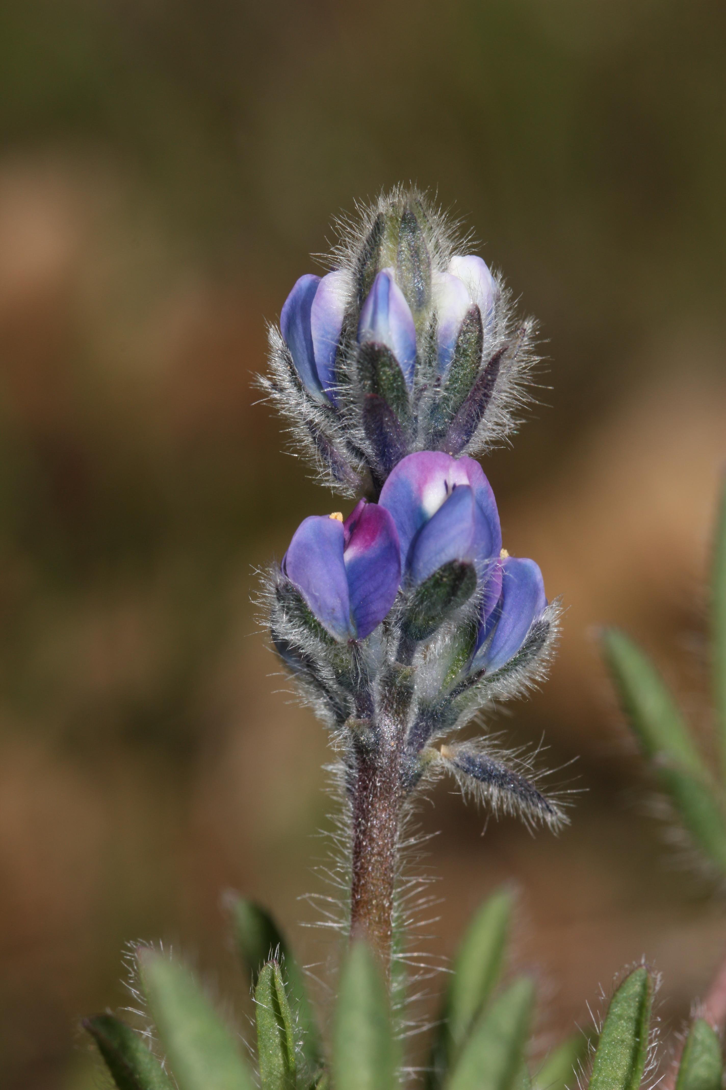 Two-color Lupine Viewpoint location: Catherine Creek Trail (north of road), Catherine Creek Day Use Area Viewpoint elevation: 120 meter (392 ft) Location source: Garmin GPSmap 60CSx Location Datum: WGS84